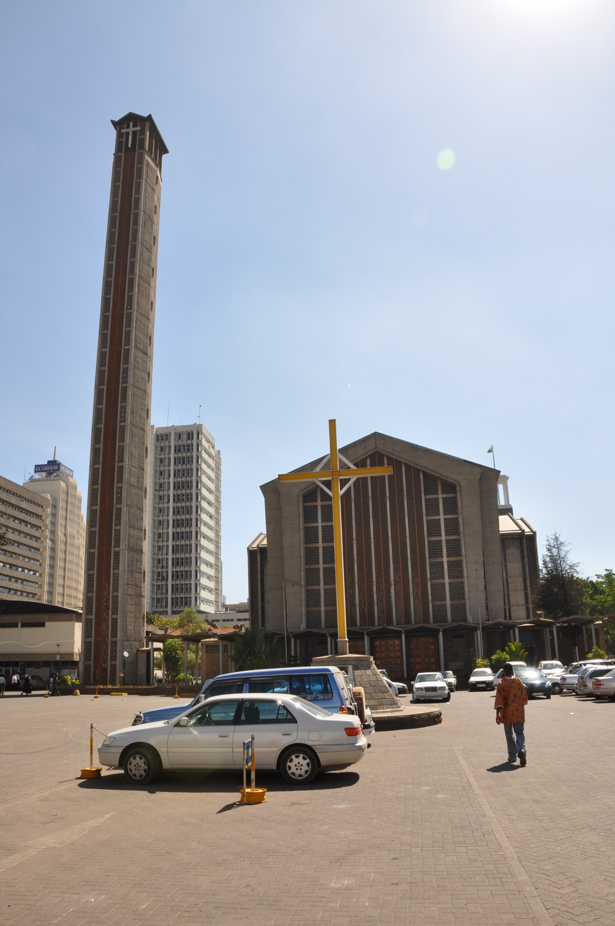 Holy Family Basilica Cathedral